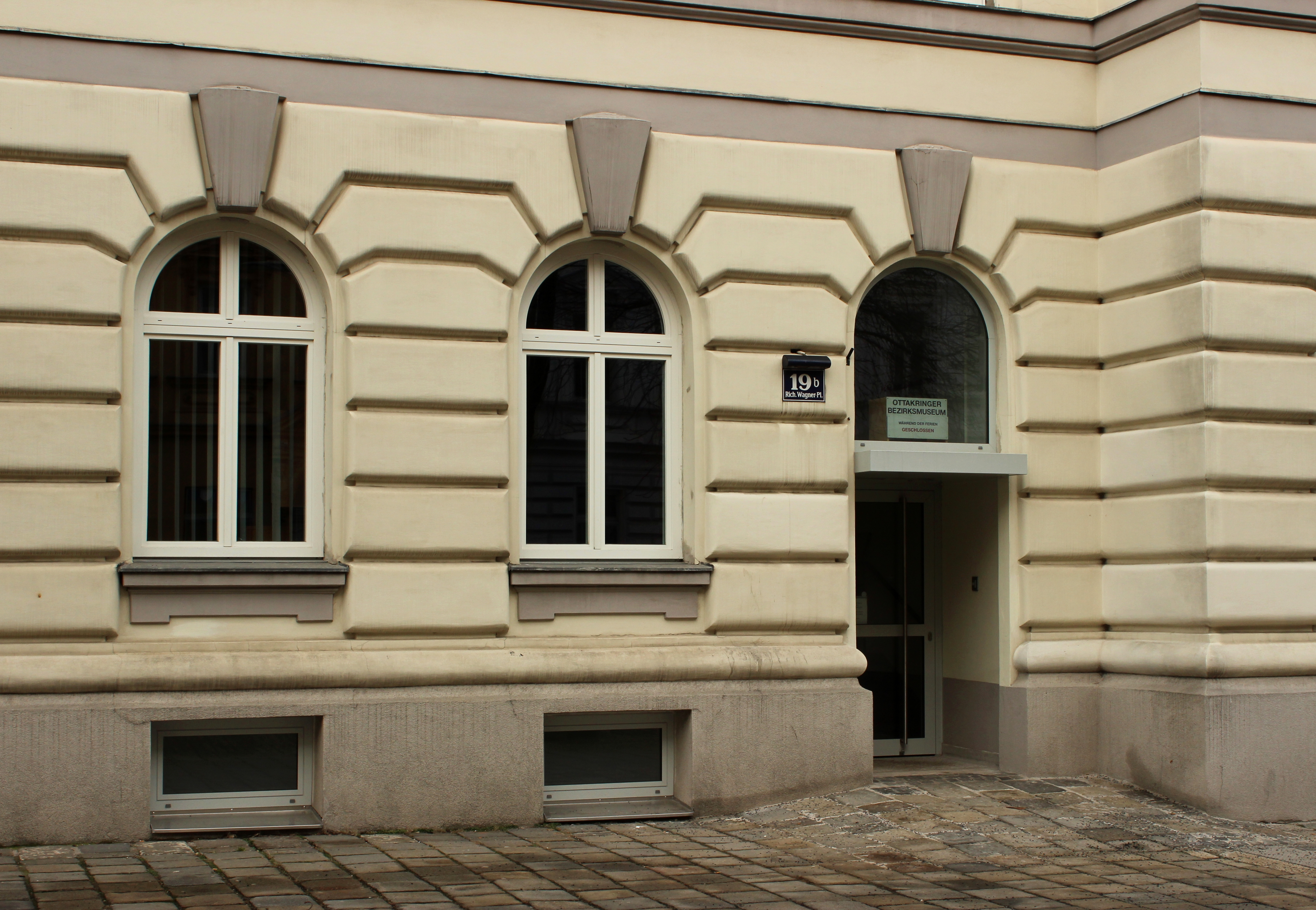 Bezirksmuseum Ottakring (Museum of the district Ottakring) in Vienna, Austria.